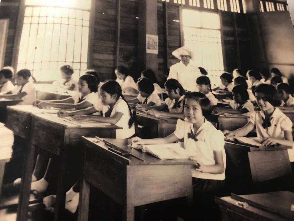 โรงเรียนมารีย์วิทยา เมื่อ 50 ปีที่แล้วคุณวไลพร สิริจินดา นักเรียนเลขประจำตัว 1